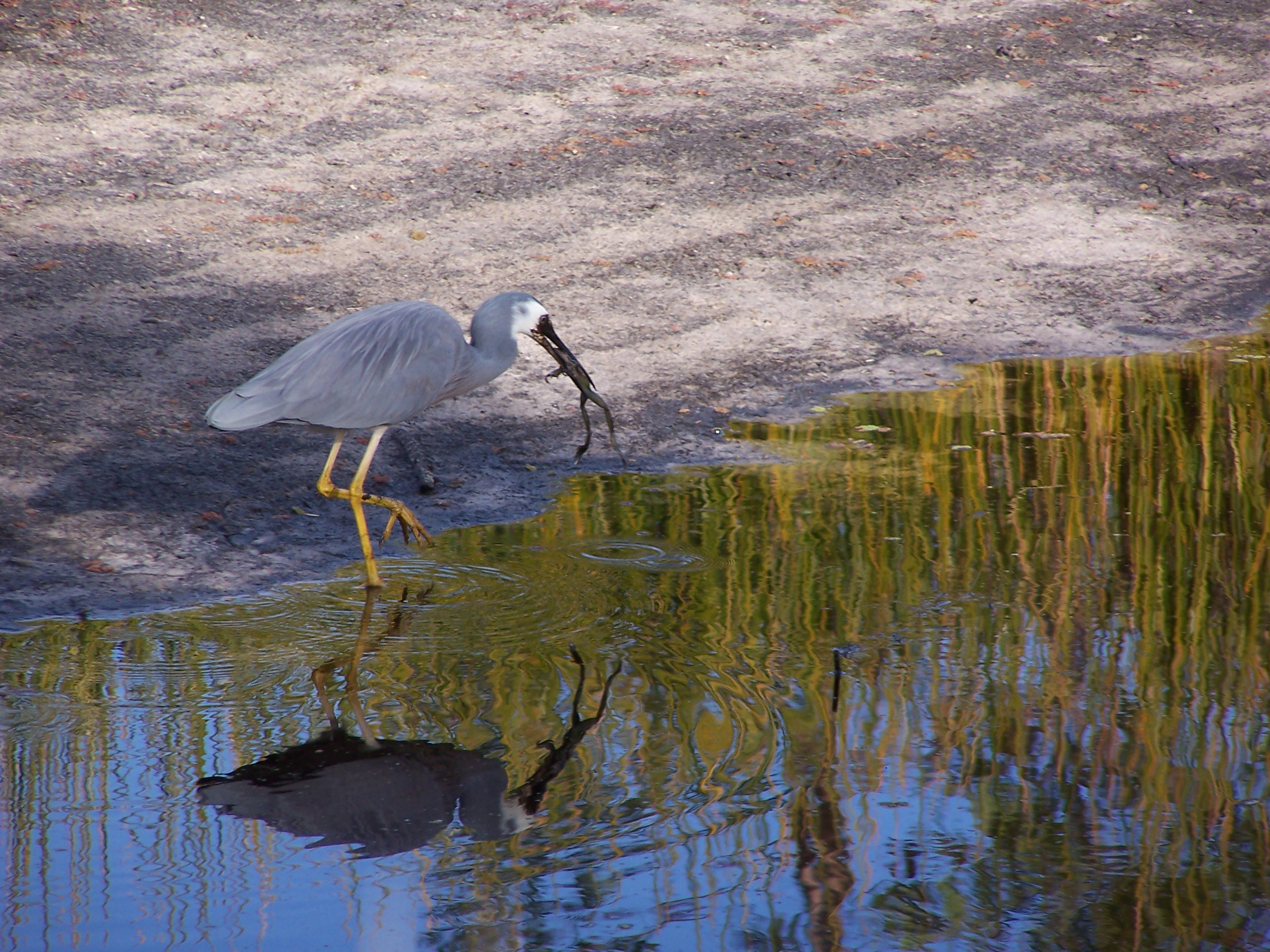 White Faced Heron (Egretta novaehollandiae), with frog taken in the suburb of Southern River, Perth Western Australia